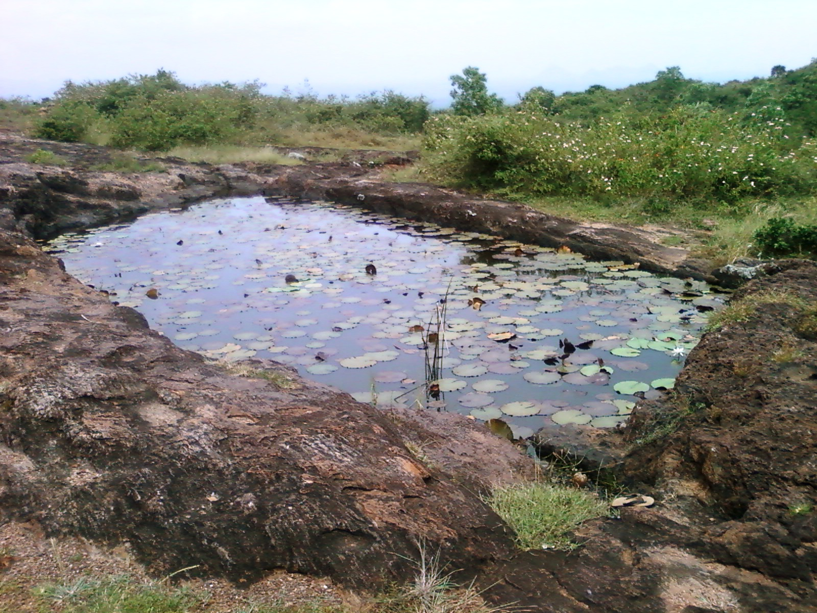 One of the 16 Rock cut cisterns on Buddhist Monastic ruins site at Pavurallakonda, Bheemunipatnam, Andhra Pradesh